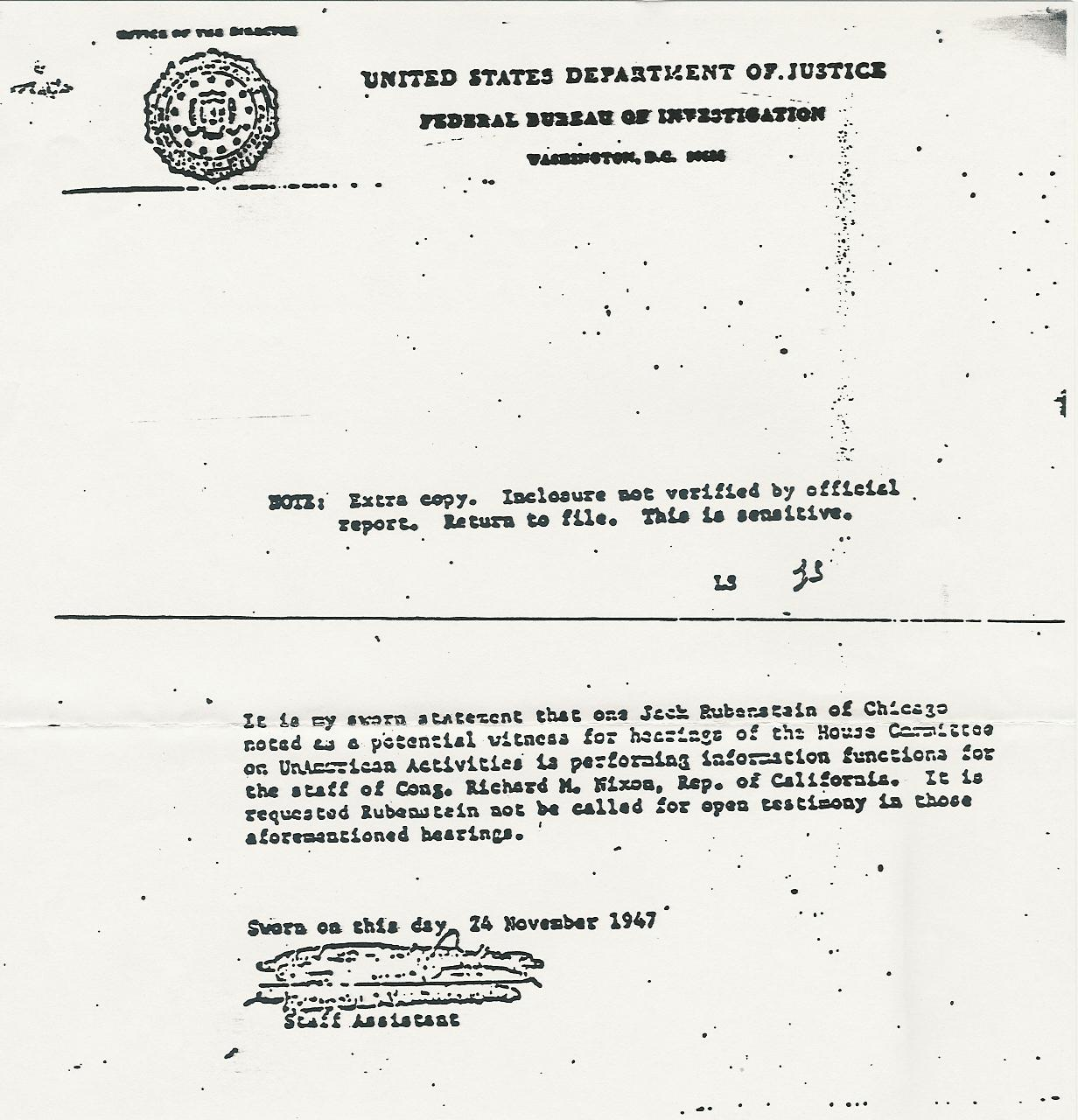 This FBI-document of 1947 recommends that "one Jack Rubenstein of Chicago" should not be called to testify for the Committee on Unamerican Activities, for he is working for Congressman Richard M. Nixon. According to the Warren Commission, Ruby had no connections with Oswald, Organized Crime or the Government. No wonder the header reads "This is sensitive".